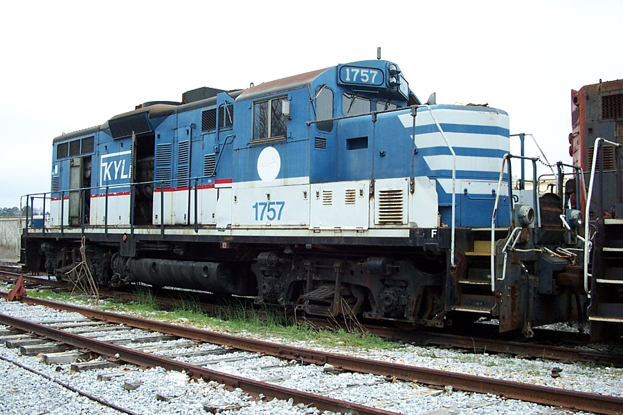 A Kyle engine undergoes repair at the Eastern Alabama Railway in Sylacauga, Alabama.